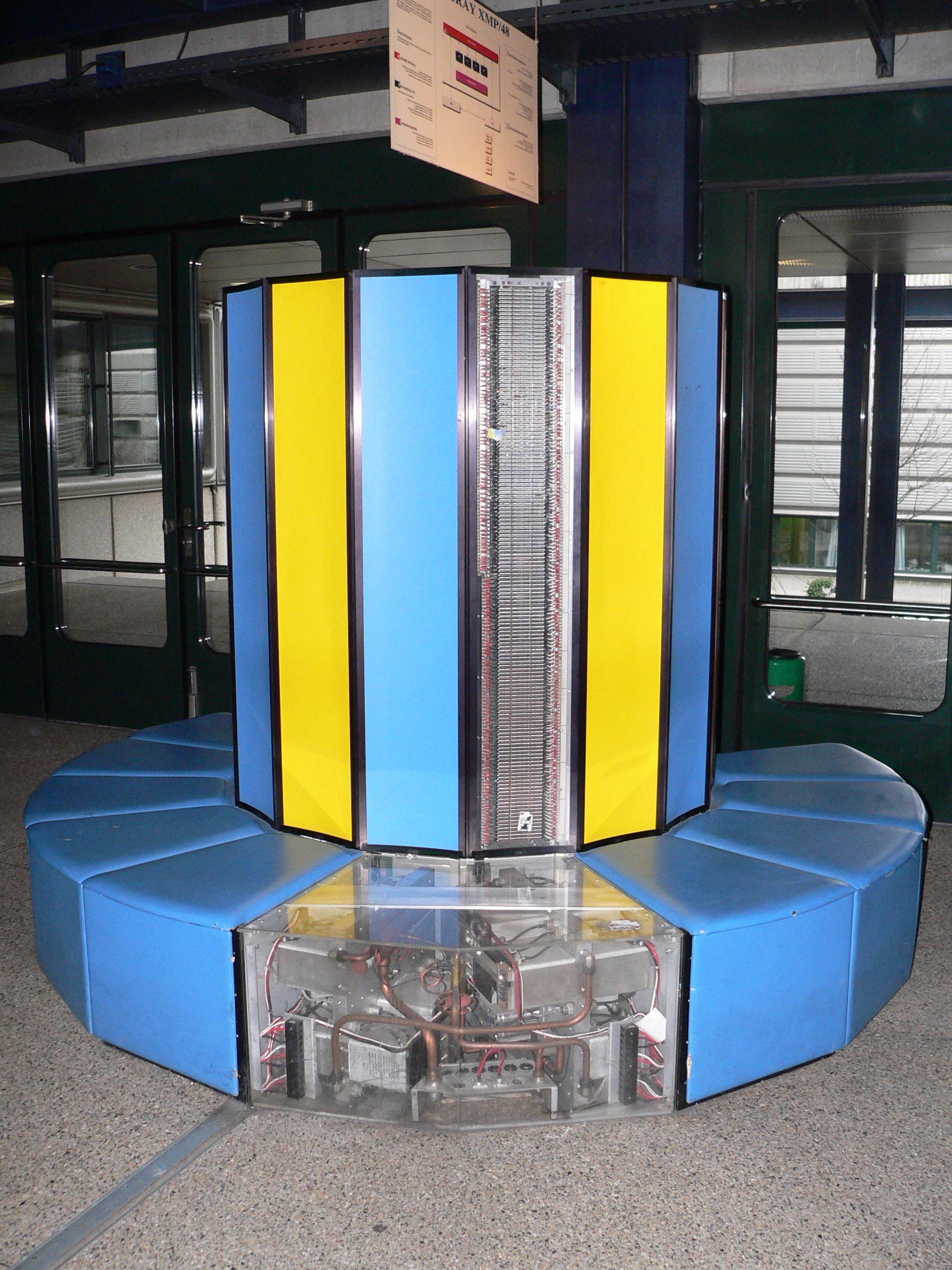 Cray-XMP48, at the "École Polytechnique Fédérale de Lausanne", Swiss